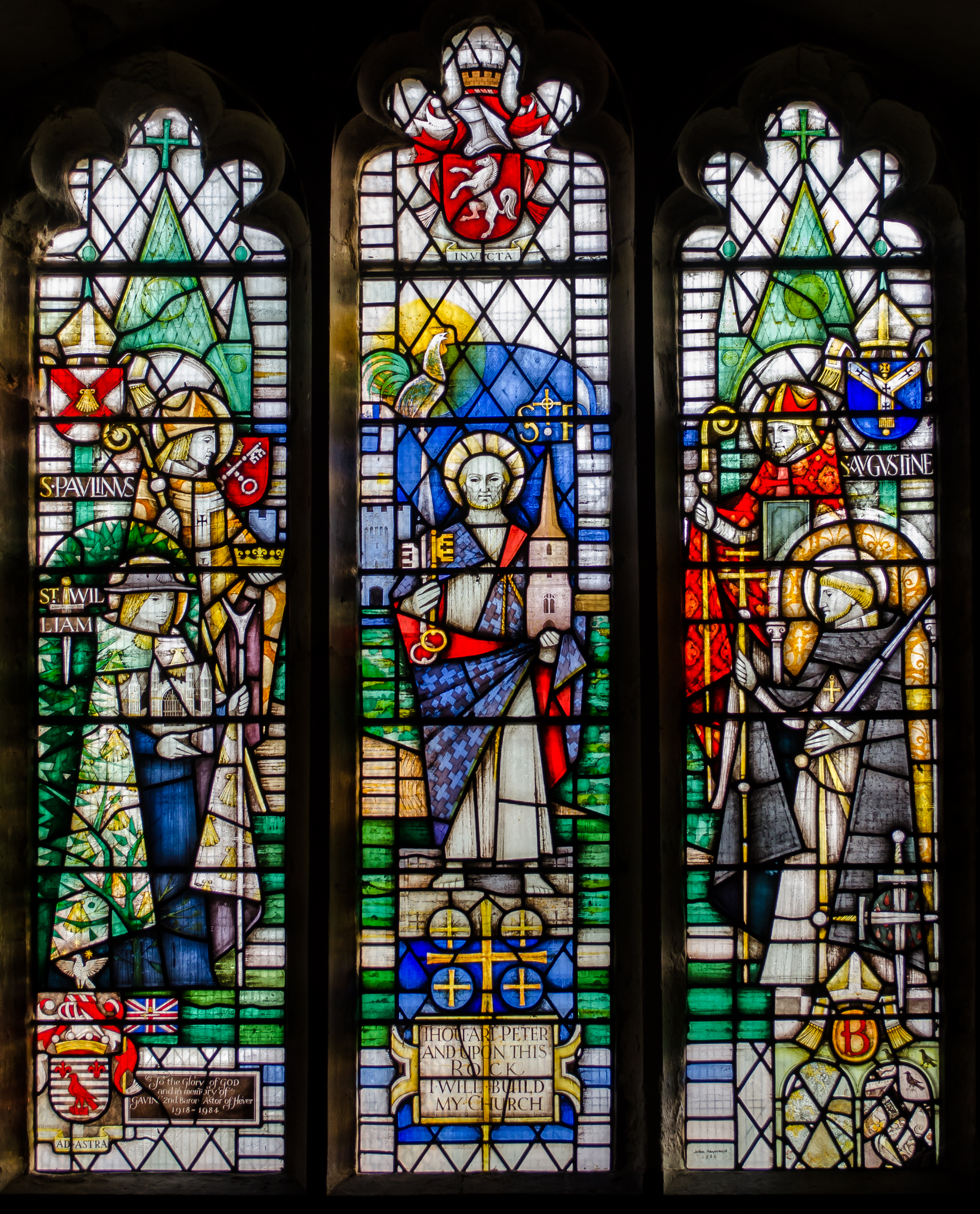 Stained glass window, St Peter's church, Hever, Kent. Memorial to Gavin Astor, 2nd Baron Astor of Hever (1 June 1918 – 28 June 1984), of Hever Castle. Left, top to bottom: St Paul and arms of the See of London; Saint William of Perth (died c. 1201), martyred at Rochester in Kent and buried in Rochester Cathedral, holding a model of Rochester Cathedral, with the arms of the See of Rochester above; arms of Gavin Astor, 2nd Baron Astor of Hever. Centre, top to bottom: Coat of arms of Kent; Saint Peter with crowing cock and holding Keys to Kingdom of Heaven and a model of Hever Church, dedicated to him. Right, top to bottom: St Augustine, Archbishop of Canterbury in Kent, with arms of See of Canterbury; Saint Thomas Becket, Archbishop of Canterbury, with his attributed arms (three Cornish choughs) with a medley of scraps of mediaeval stained glass. Signed: "John Hayward 1986".